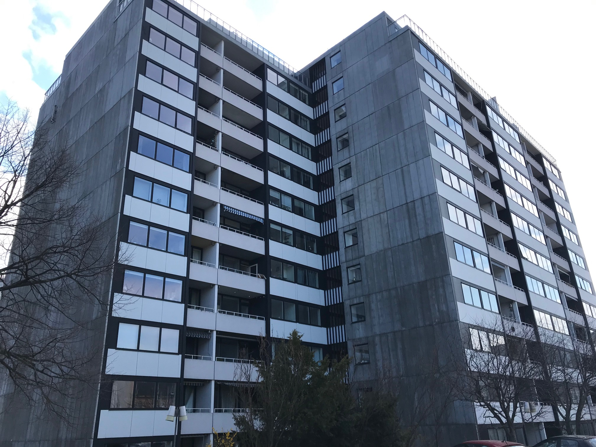 Østerpark in Copenhagen Denmark, opened 1972, Jagtvej 213-215 Østerbro